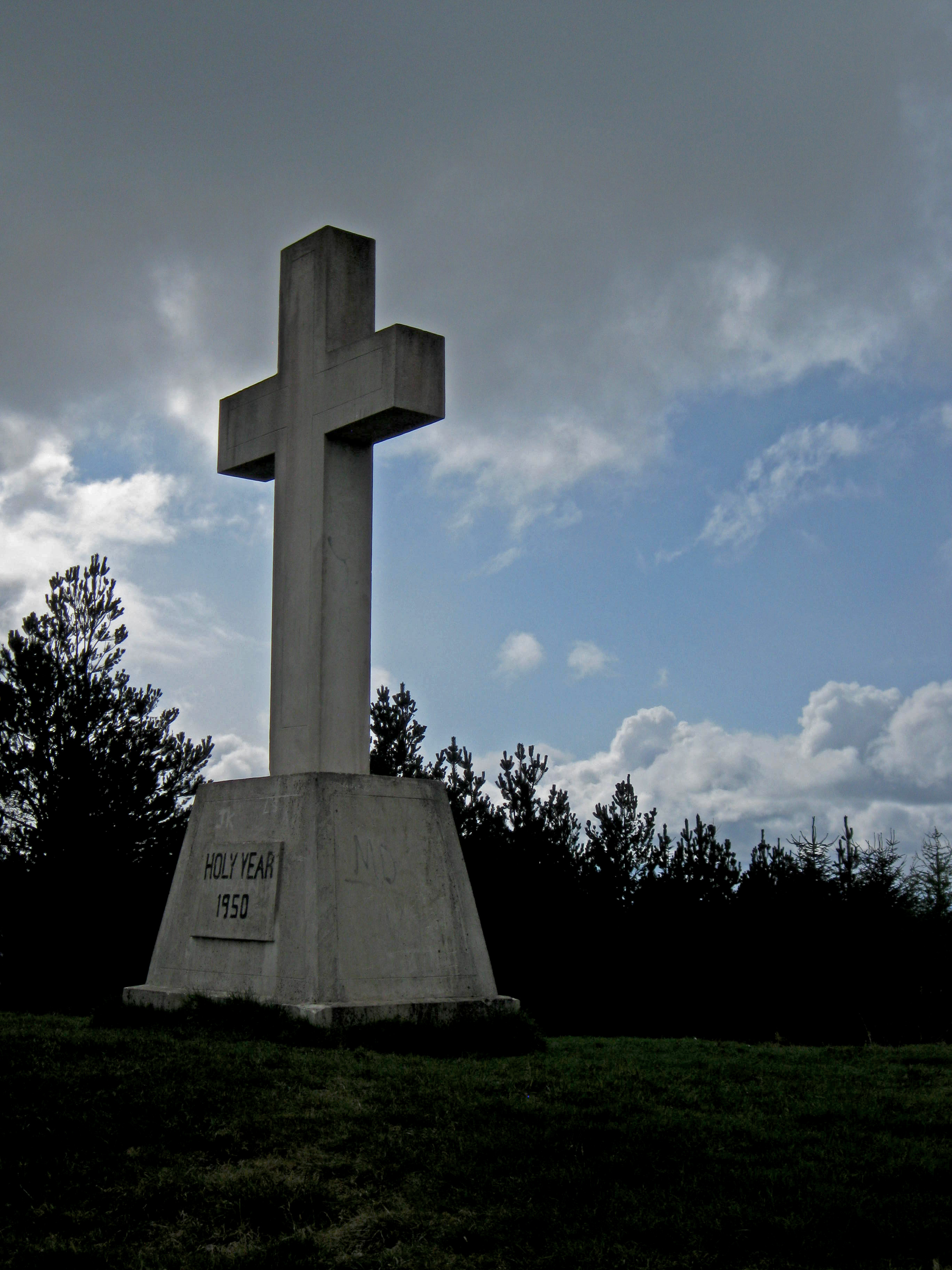 SW view of the Holy Year Cross